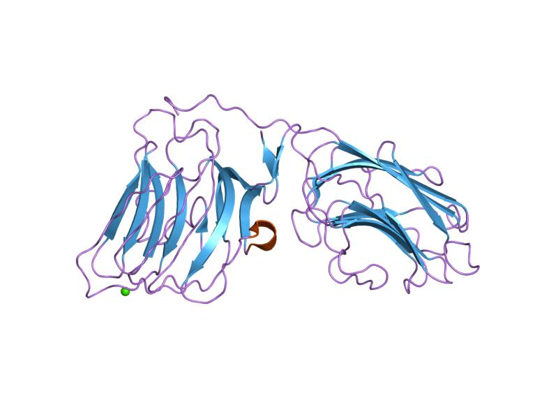 Cartoon representation of the molecular structure of protein registered with 1okq code.